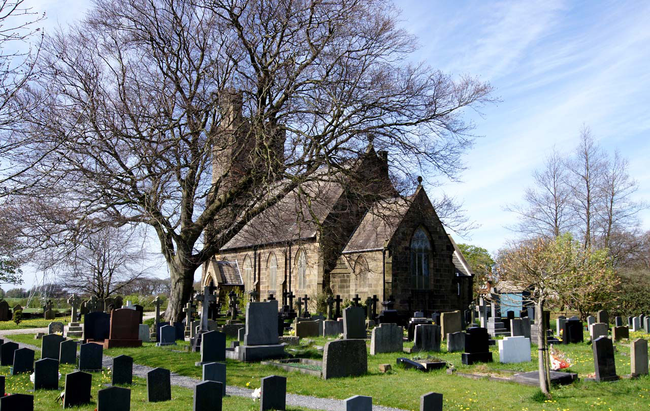 Parish church of St John the Evangelist, Lund, Lancashire, seen from the southeast